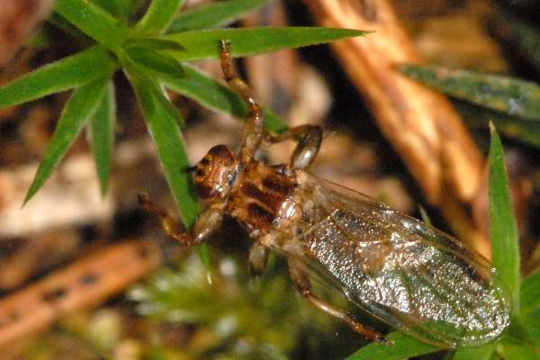 Ornithomya avicularia from Commanster, Belgian High Ardennes .